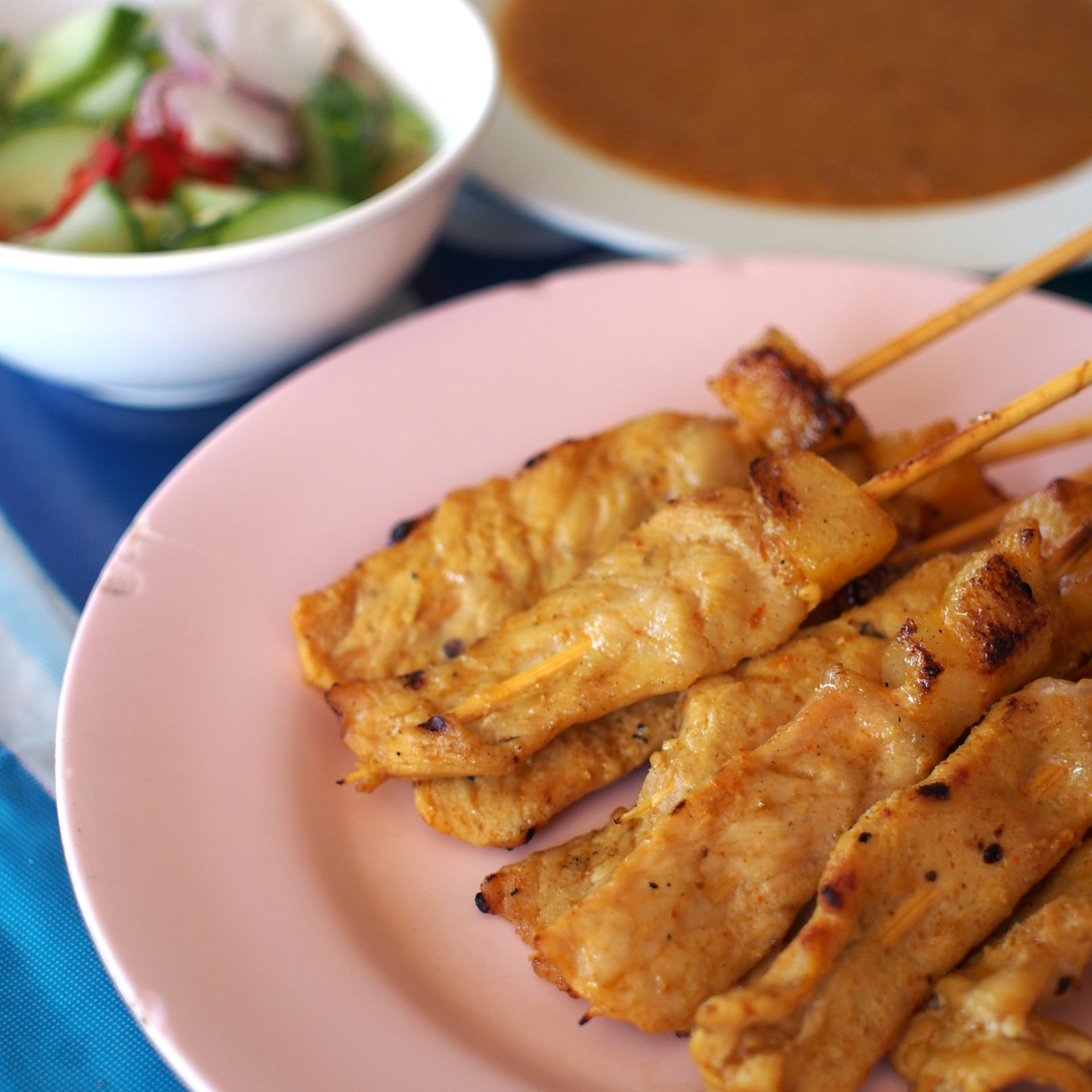 Mu sate' (Thai script: หมูสะเต๊ะ) is Thai pork satay. It is served with peanut sauce and pickled cucumber.